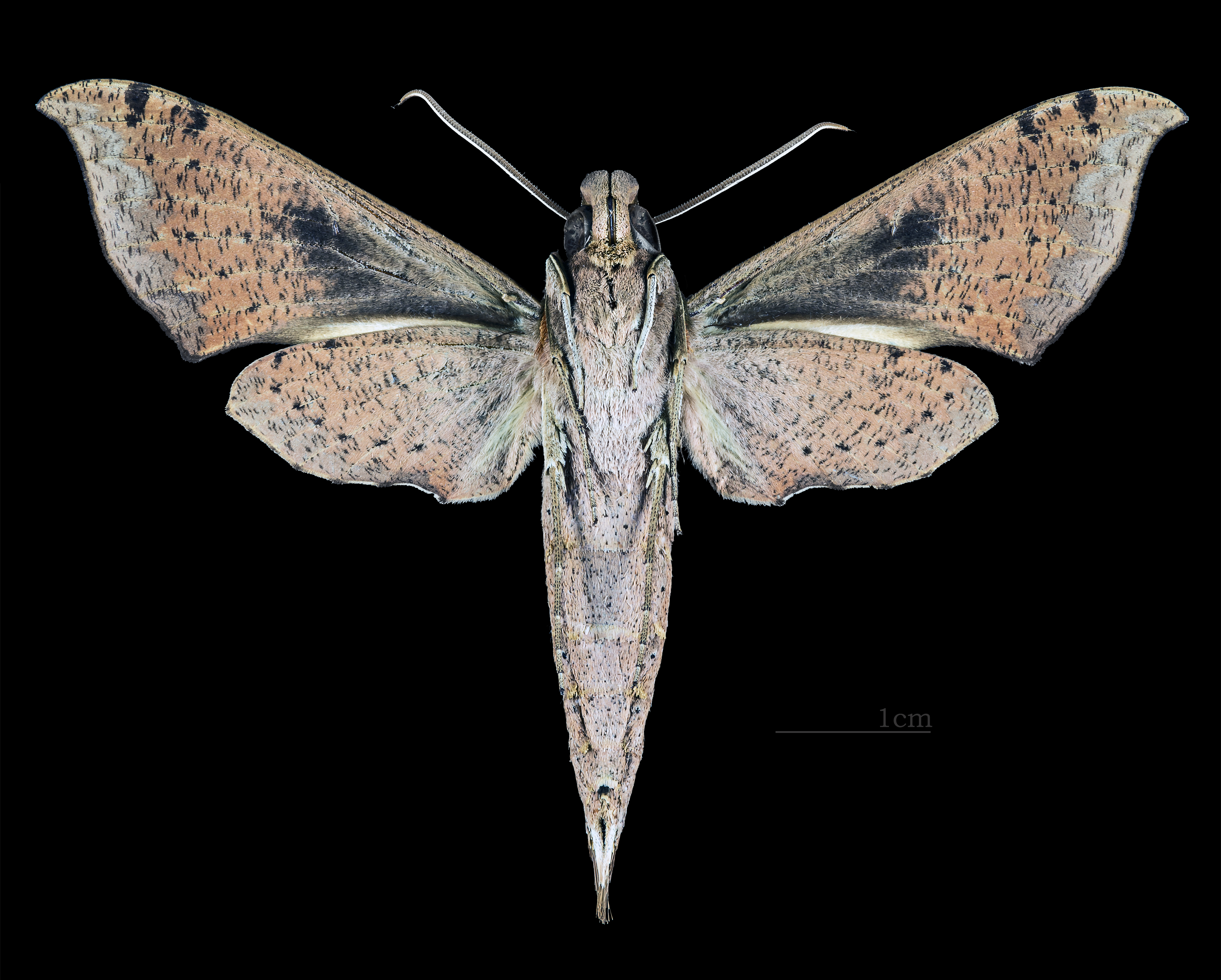 Xylophanes epaphus - △ Ventral side